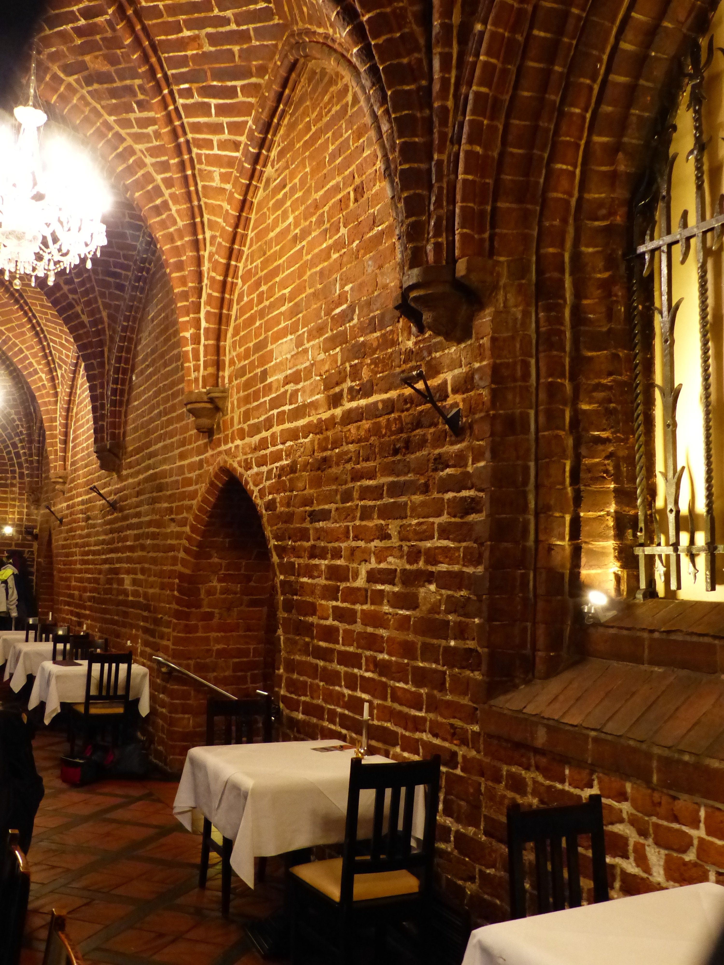 Former refectory and last relic of St. Catherine monastery in Bremen, nowadays restaurant "Stadtwirt"